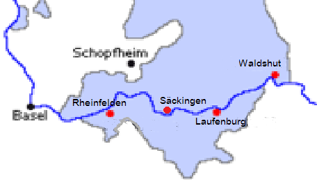 Map of Waldstädte